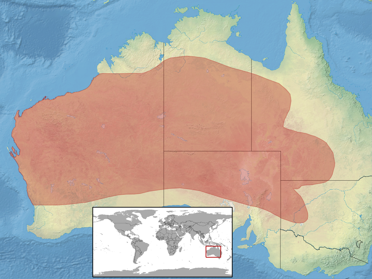 geographic distribution of Ctenophorus nuchalis (Native: Australia)